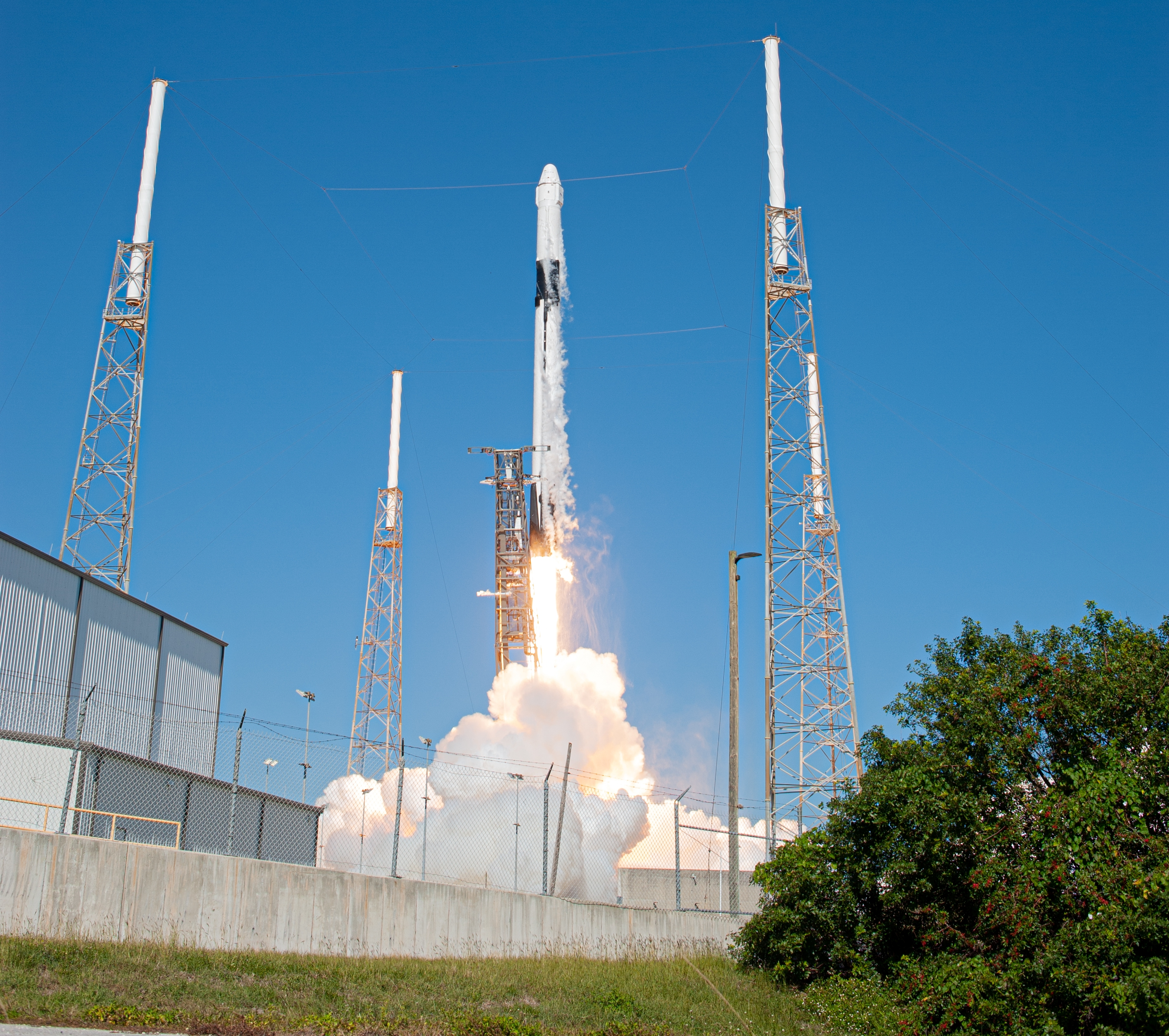 The SpaceX Falcon 9 rocket with the Dragon cargo module climbs upward after liftoff from Space Launch Complex 40 on Cape Canaveral Air Force Station in Florida in the early afternoon on Dec. 5, 2019. Liftoff was at 12:29 p.m. EST. This is SpaceX’s 19th Commercial Resupply Services (CRS-19) mission for NASA to the International Space Station. The Dragon cargo module will deliver more than 5,700 pounds of science and research, crew supplies and vehicle hardware to the orbital laboratory and its crew.